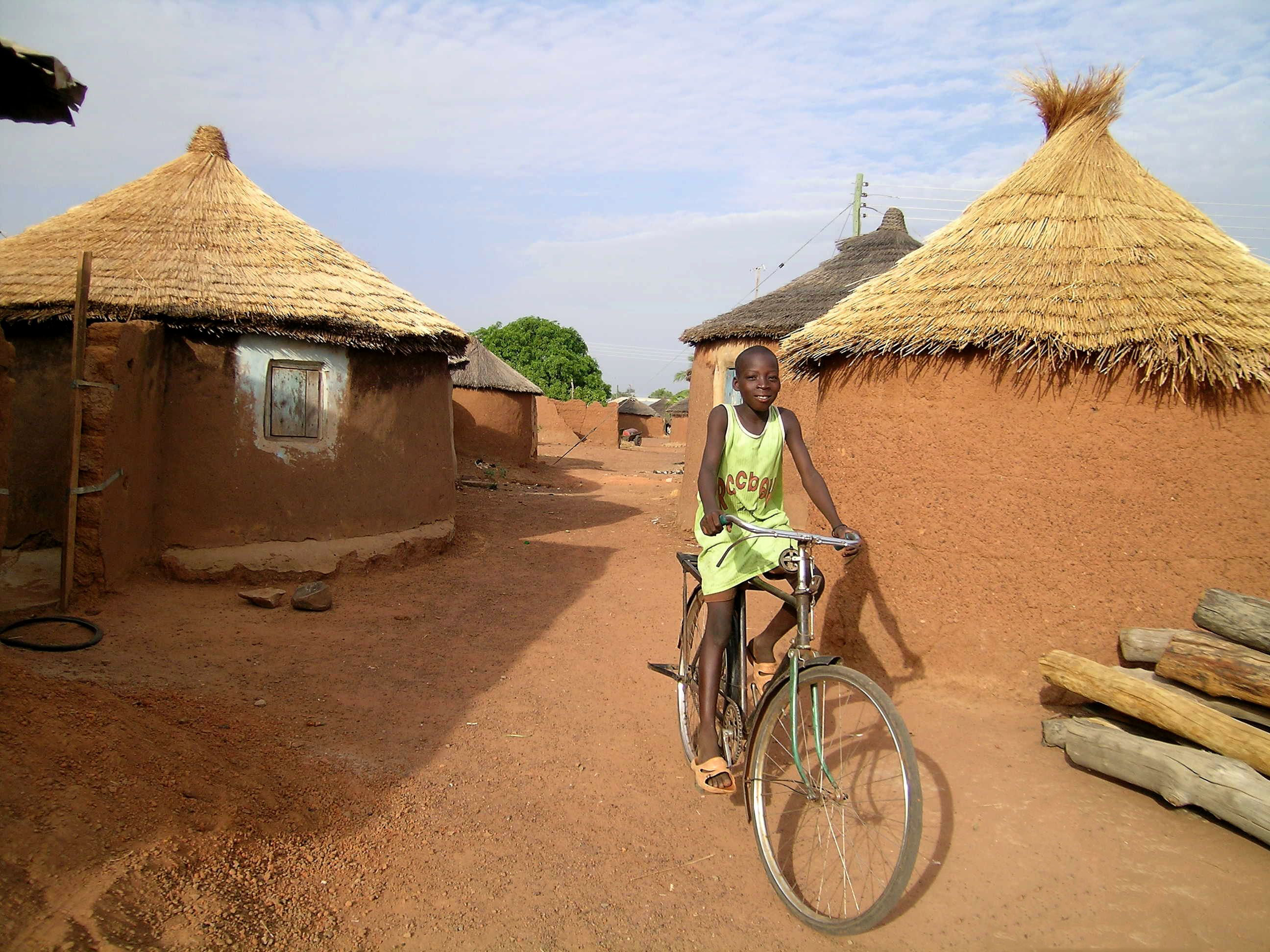 Village center of Nakpanduri, Northern Ghana